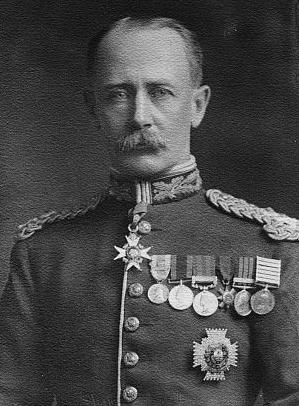 Portrait of Sir Bruce Hamilton. Official War Office Photograph. Pre-1955 so in the public domain.